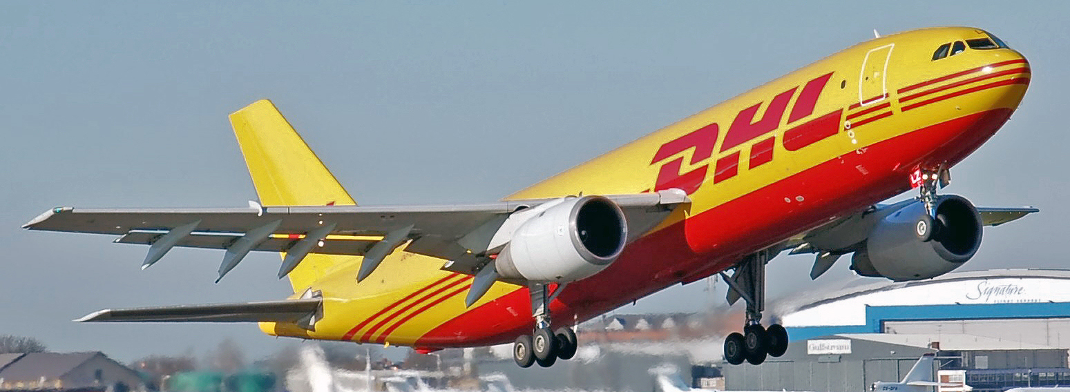 DHL Airbus A300B4-200 (OO-DLZ) of European Air Transport takes off from London Luton Airport, Bedfordshire, England